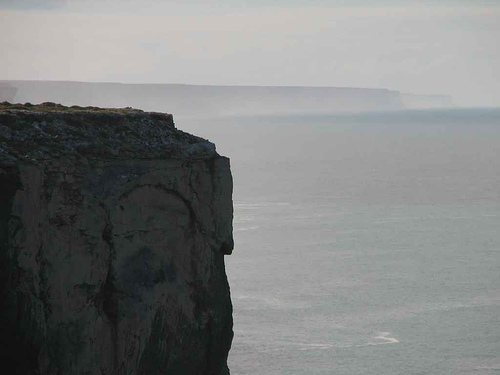 The Bunda Cliffs on the Great Australian Bight